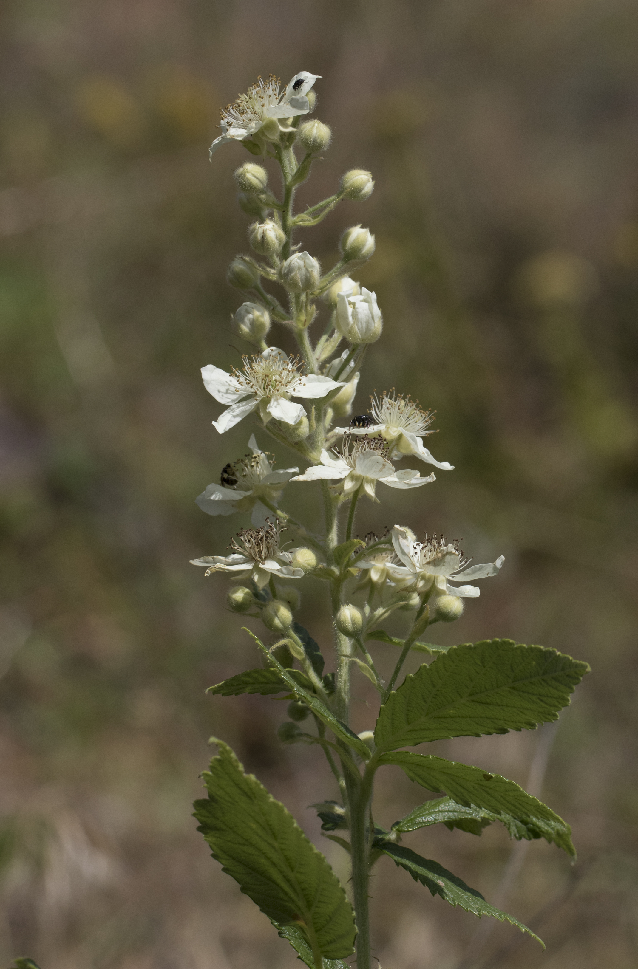 Rubus canescens. Cöbük Forest, Saimbeyli - Adana, Turkey.